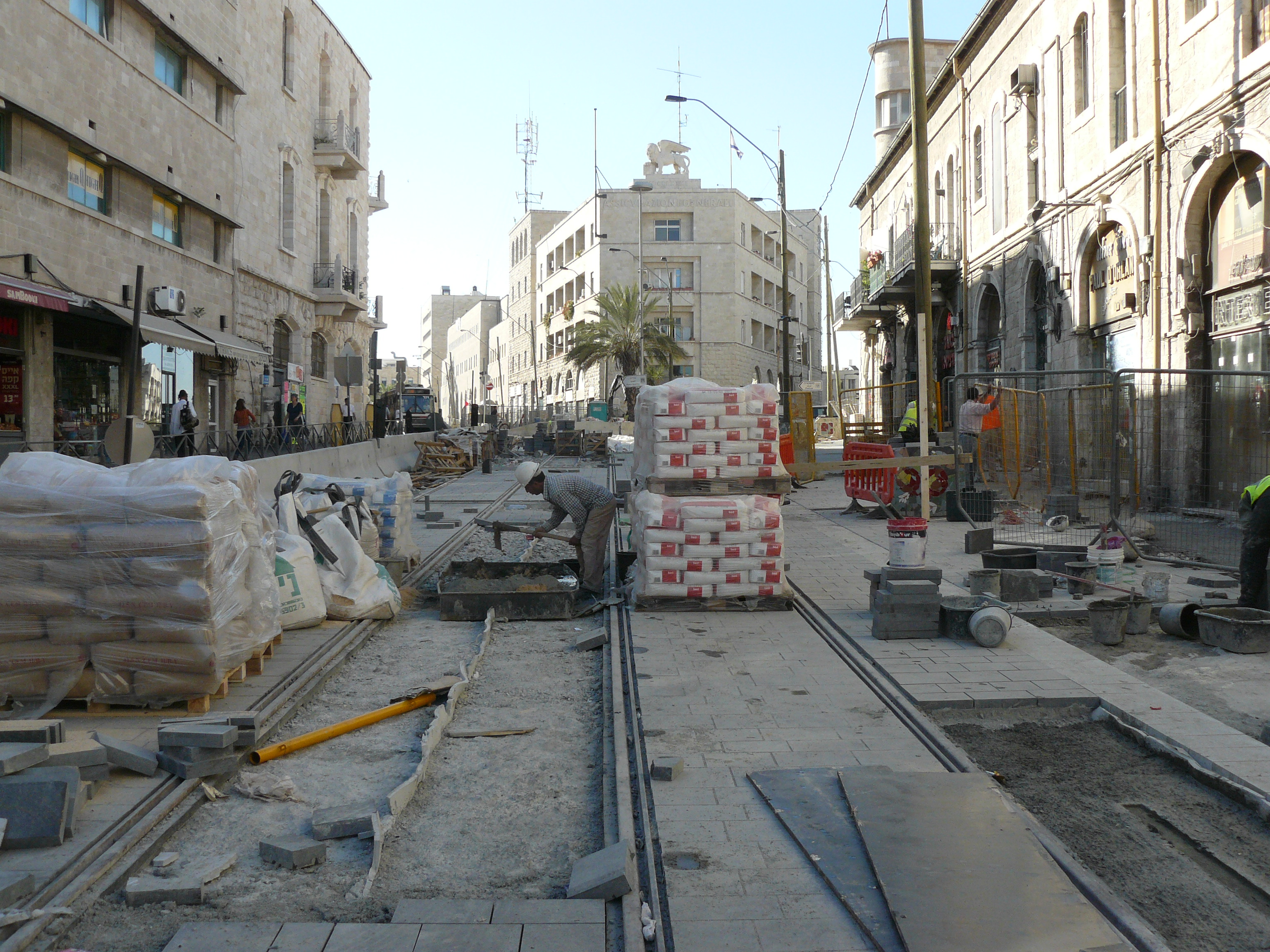 Jerusalem light train constructions